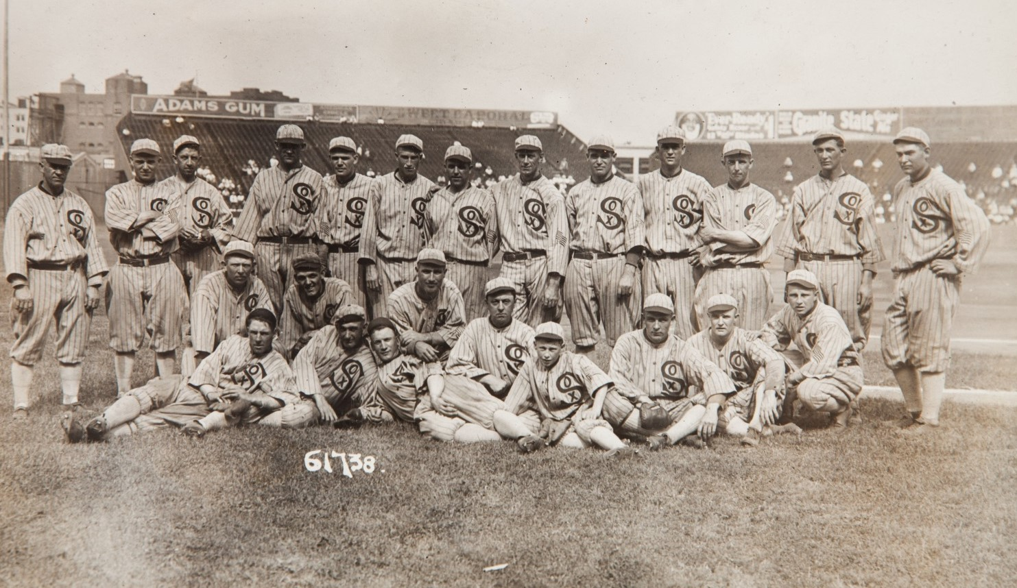 1917 Chicago White Sox baseball teamBack row, L-R: Kid Gleason, Ray Schalk, Eddie Collins, Chick Gandil, Joe Jenkins, Fred McMullin, Eddie Cicotte, Shano Collins, Eddie Murphy, Dave Danforth, Lefty Williams, Byrd Lynn, Reb RussellFront row, L-R: Joe Benz, Swede Risberg, Buck Weaver, Shoeless Joe Jackson, Happy Felsch, Jim Scott, Pants Rowland, mascot, Ted Jourdan, Mellie Wolfgang, Nemo Leibold